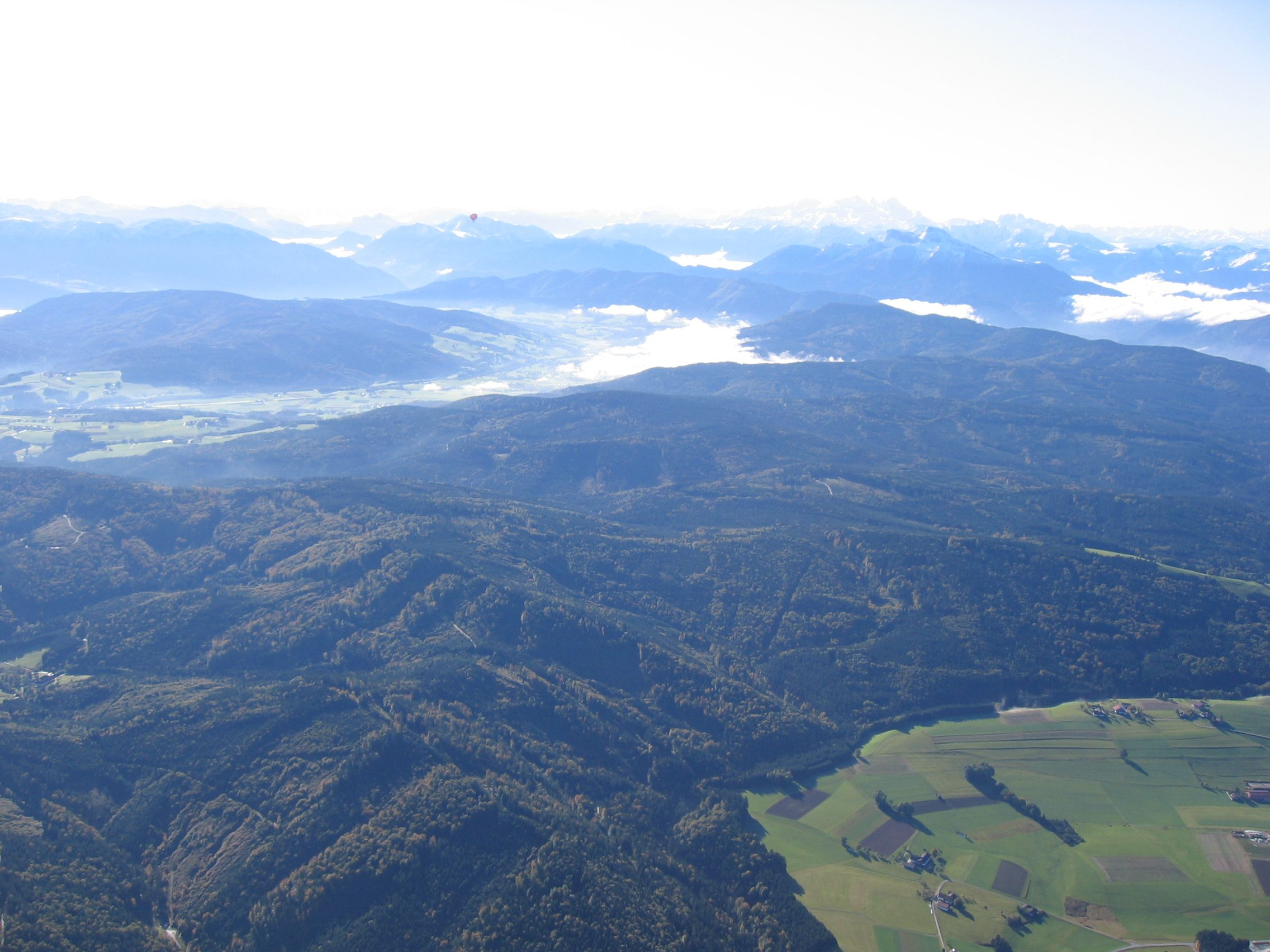 Hills nearby the Attersee and Mondsee